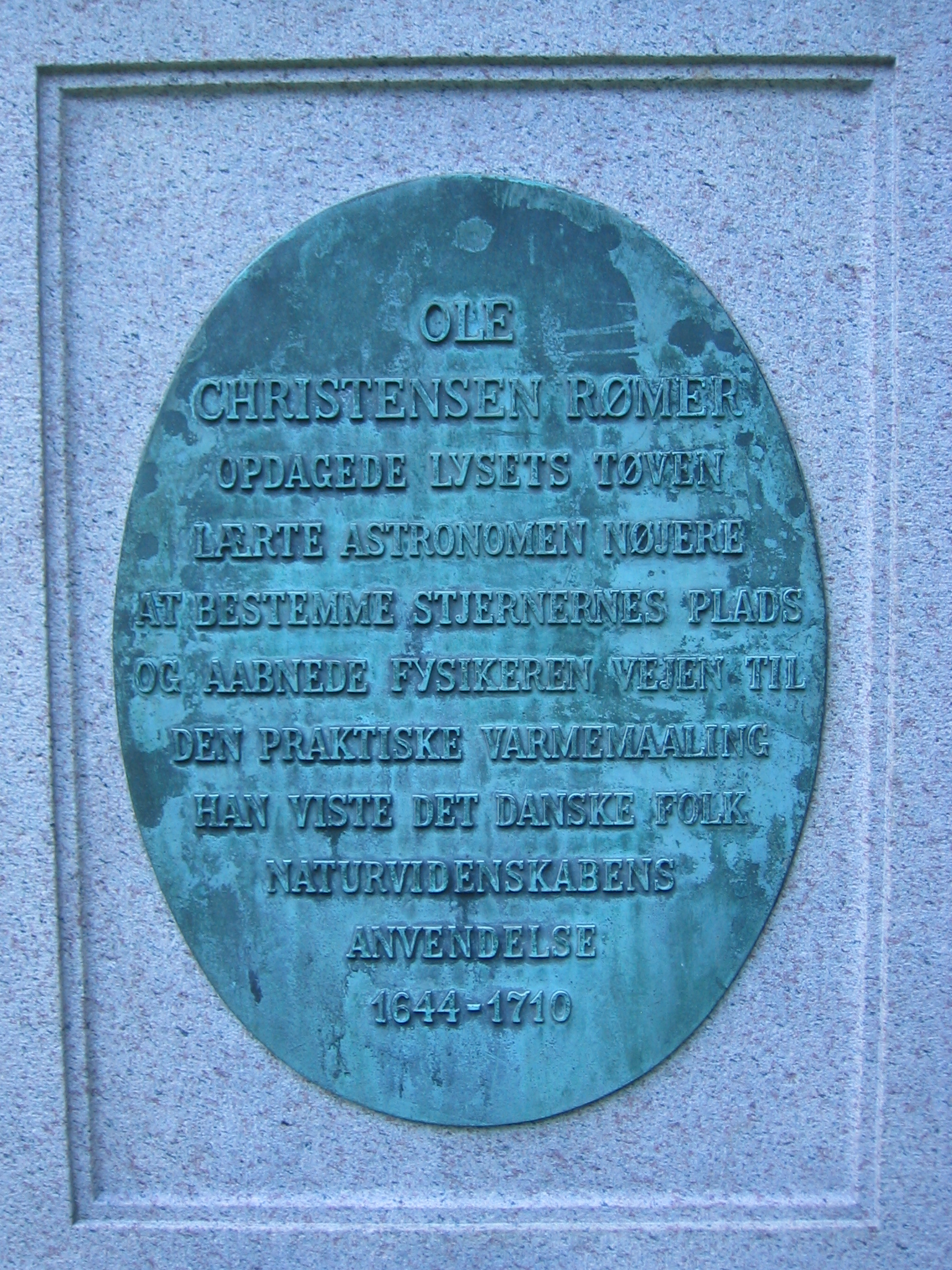 Inscription (by Kirstine Meyer) on the statue of Ole Rømer at Observatorium Tusculanum in Vridsløsemagle, Denmark